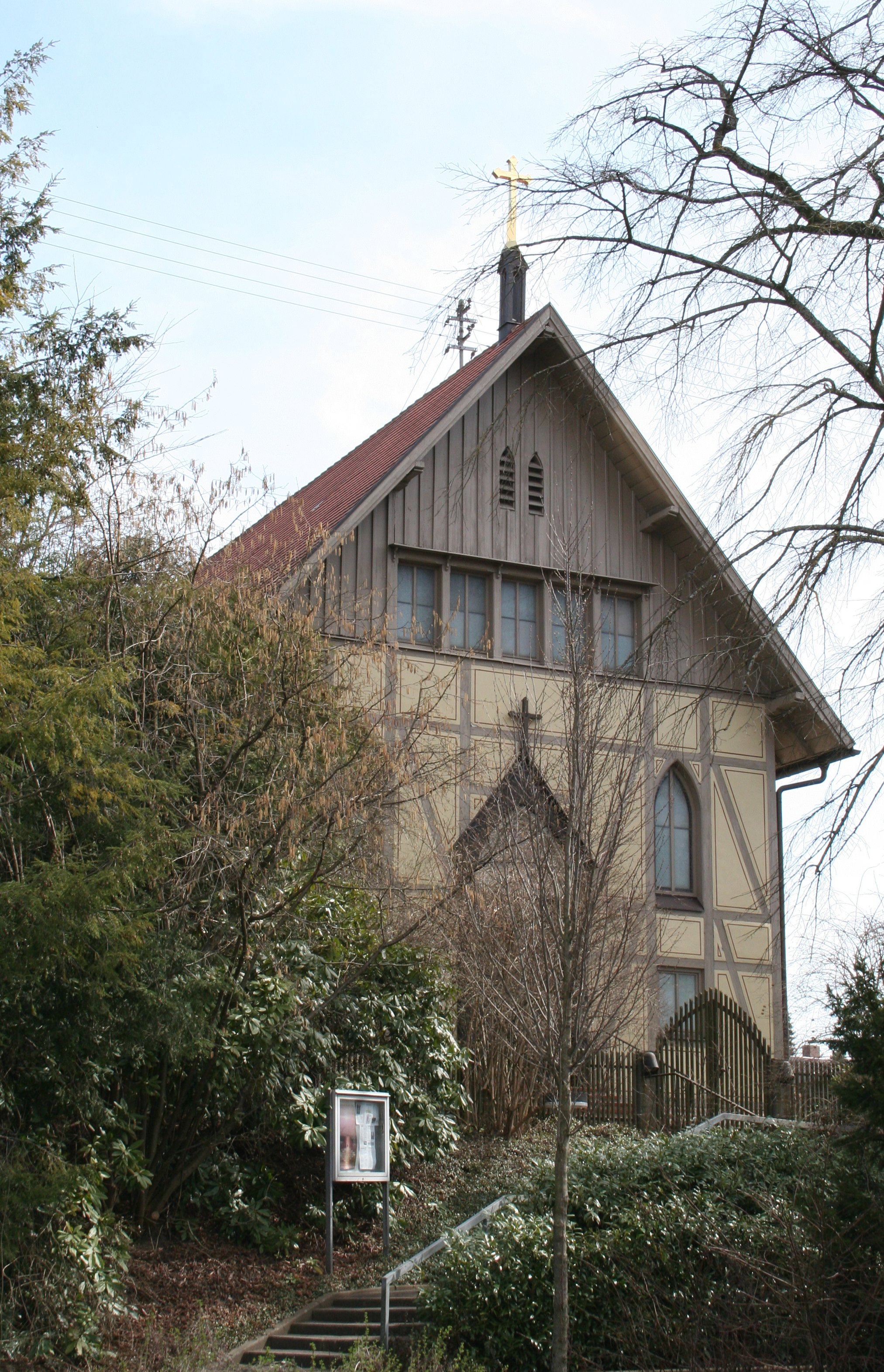 Apostelchurch Krumbach (second name: Lindlkirche) in Krumbach (Schwaben), evangelical